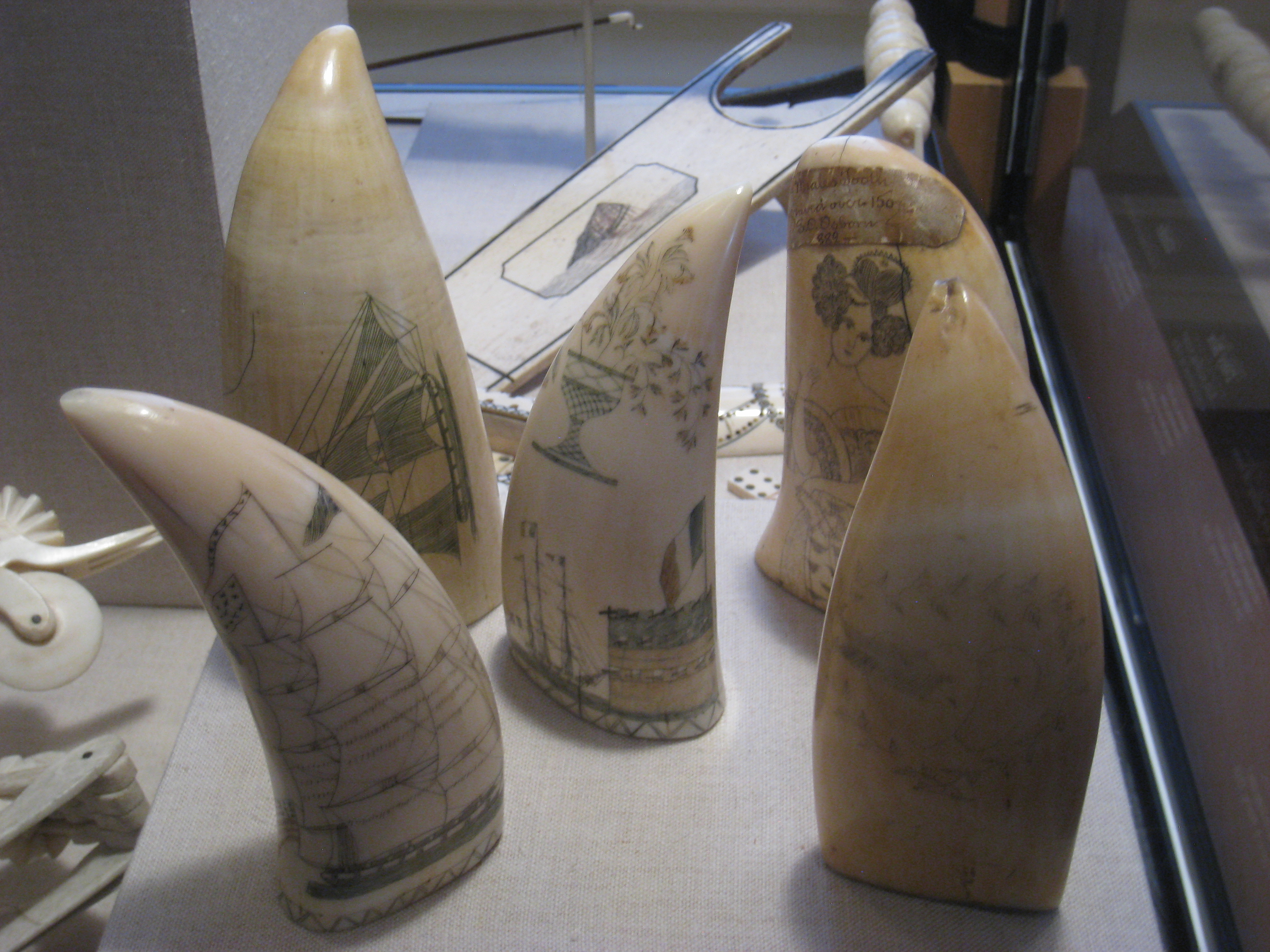 Scrimshaw - Old State House Museum, Boston, Massachusetts, USA.